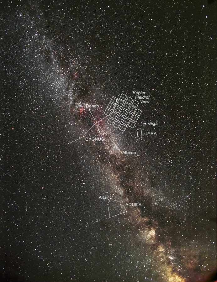 Milky Way photo with Kepler field of view.